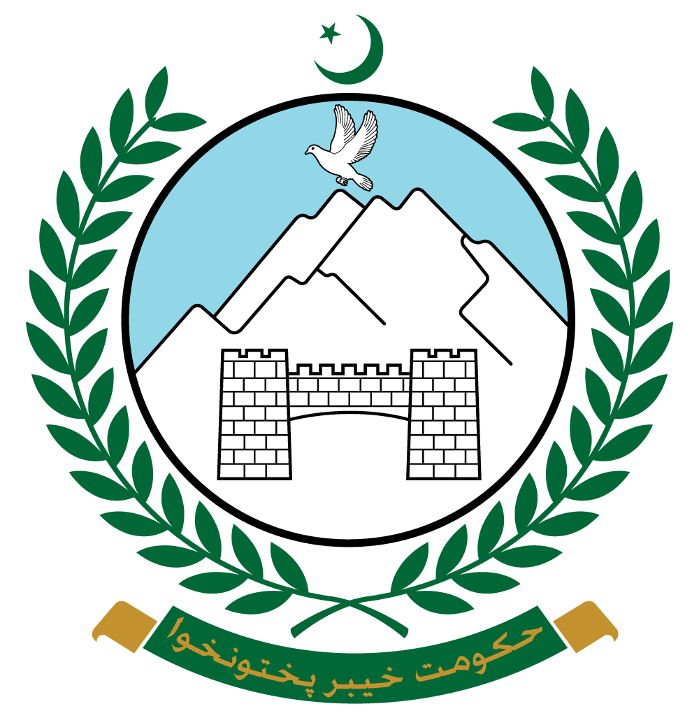 KP logo